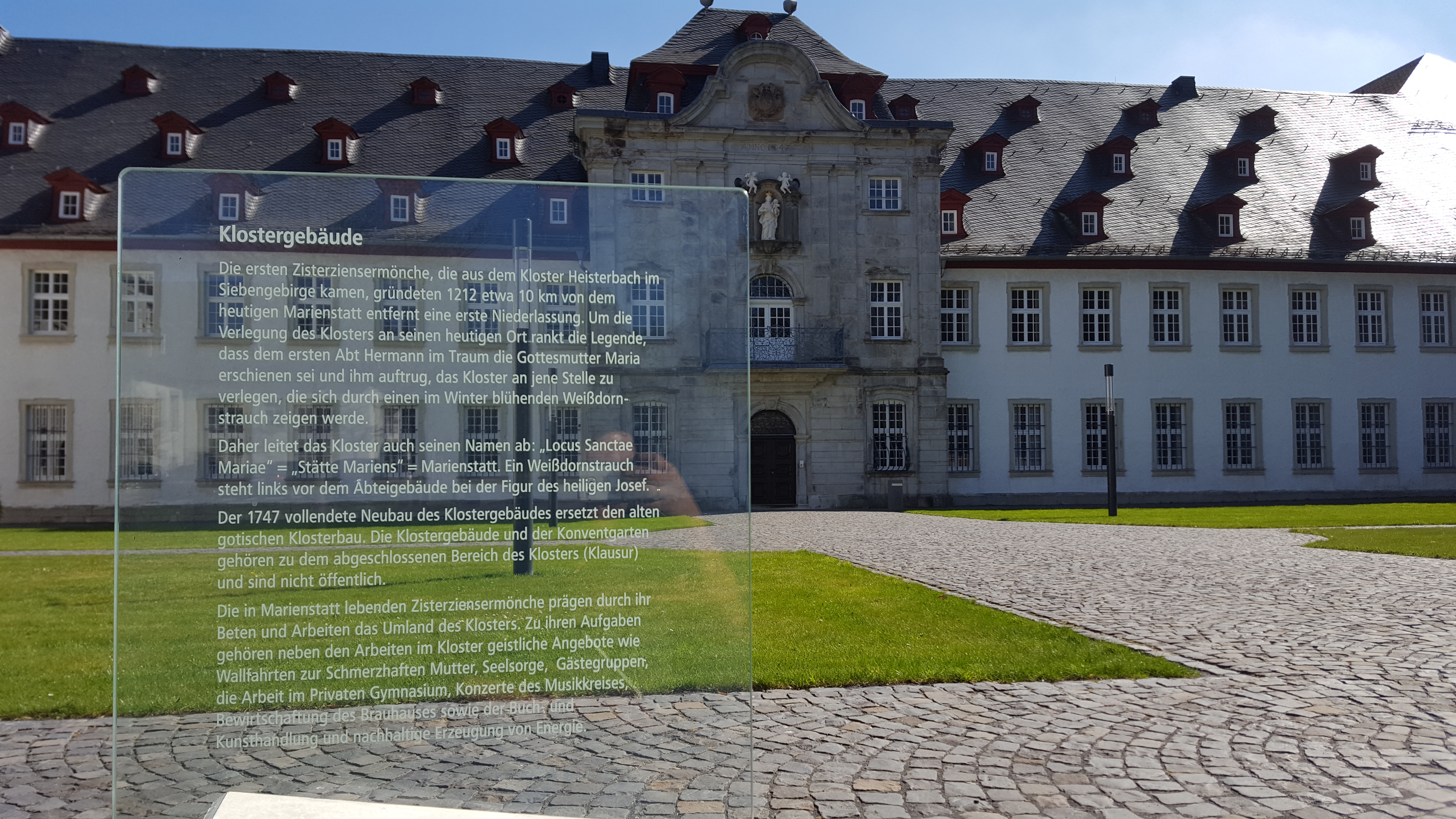 Abtei Marienstatt - Klostergebäude